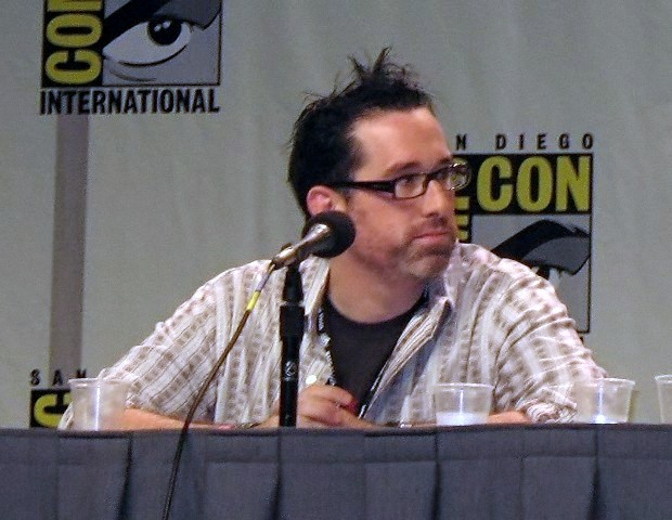 Darren Lynn Bousman attending the 2007 Comic Con to promote Saw IV.